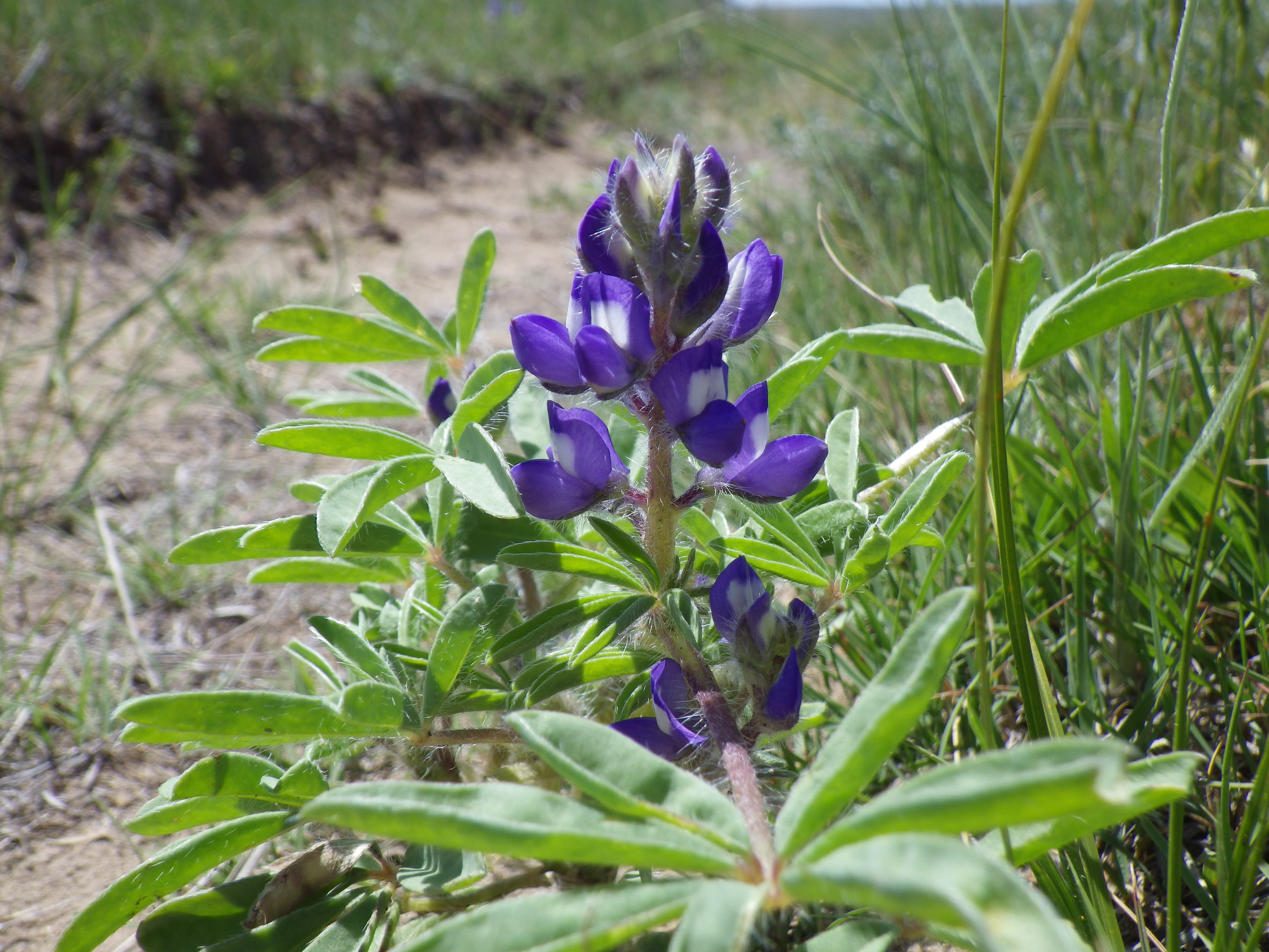 Like all Lupinus species in Wyoming big sagebrush steppe (and indeed all short-statured sagebrush steppe), even the annual lupines are most diverse and abundant in disturbance prone settings, such as road sides and sites dug up by small mammals.